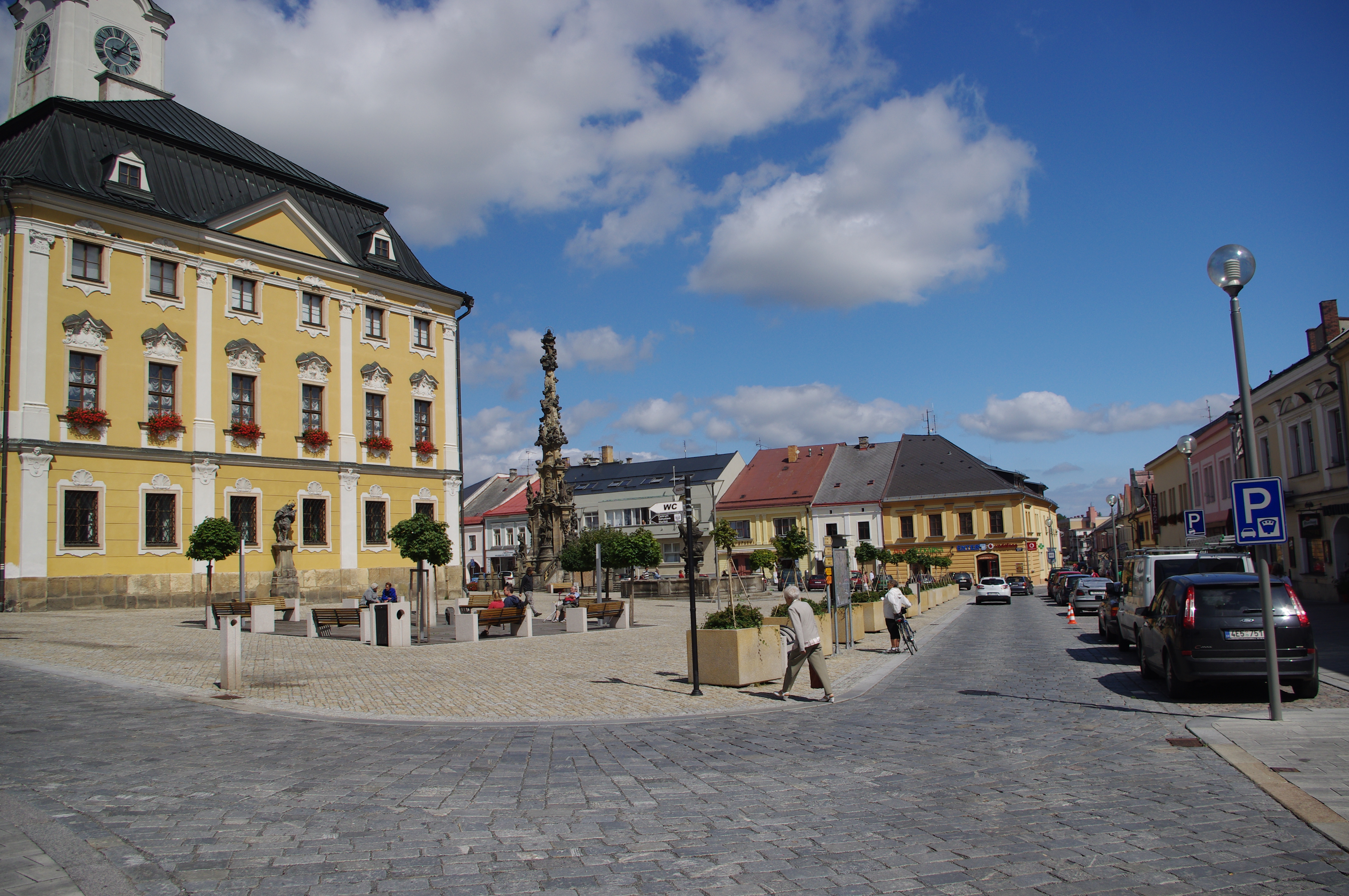 Morový sloup / Marian column location: Polička, Czech Republic author: Jan Helebrant license CC BY-SA